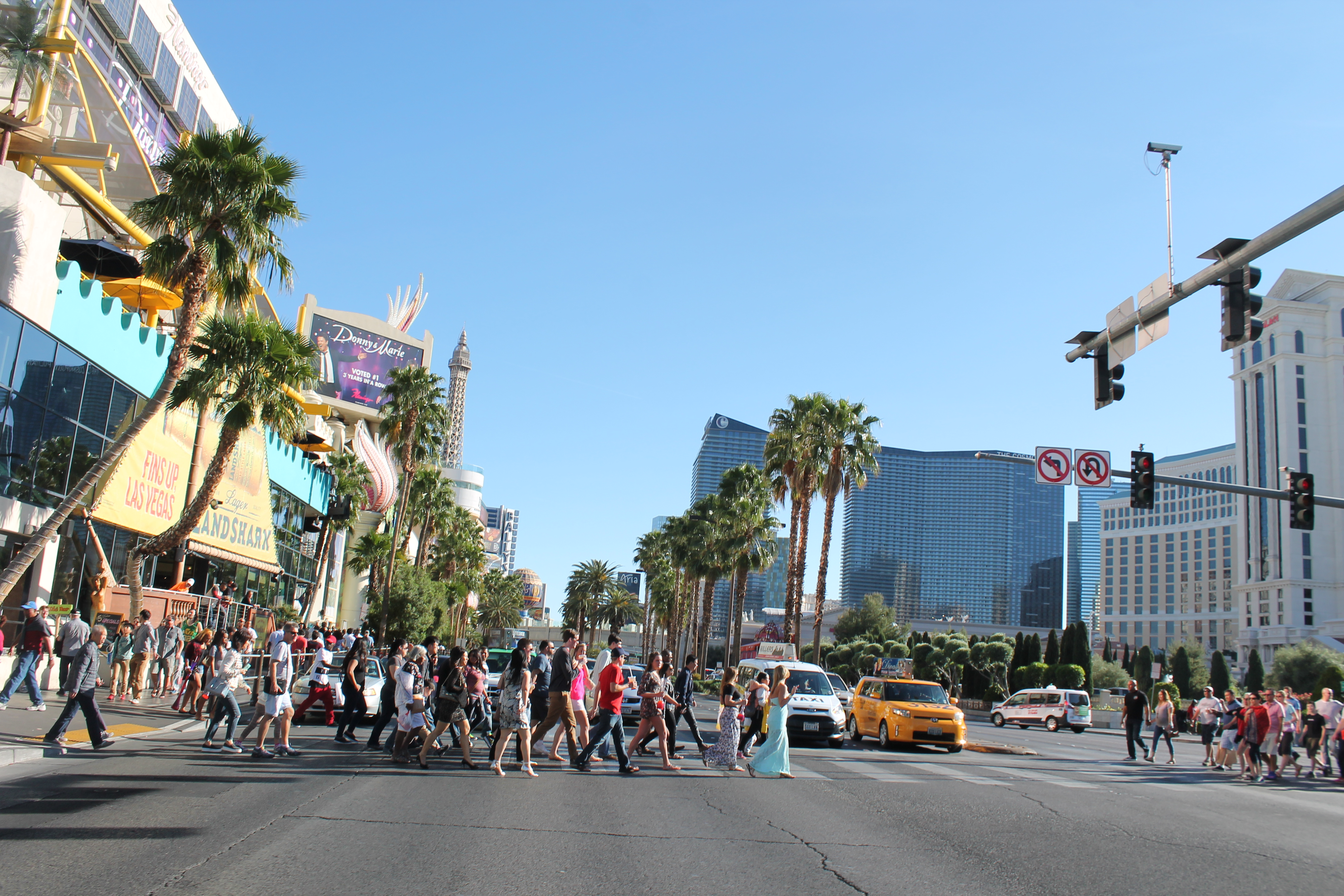 Las Vegas Blvd. City that in its architecture and its people represent the modern societies in the world and their culture.